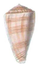 Drawing of the shell of Conus ambiguus from its original type description.